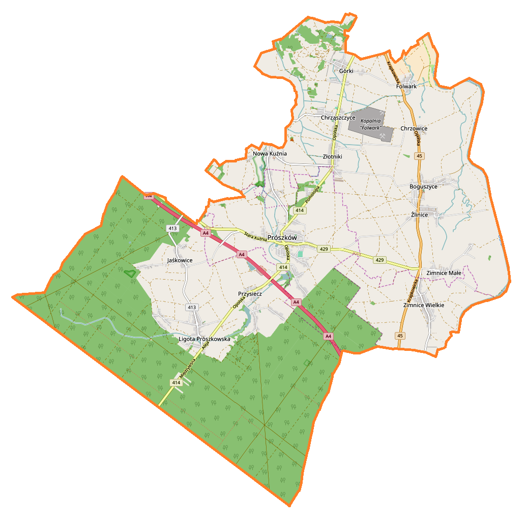 Location map